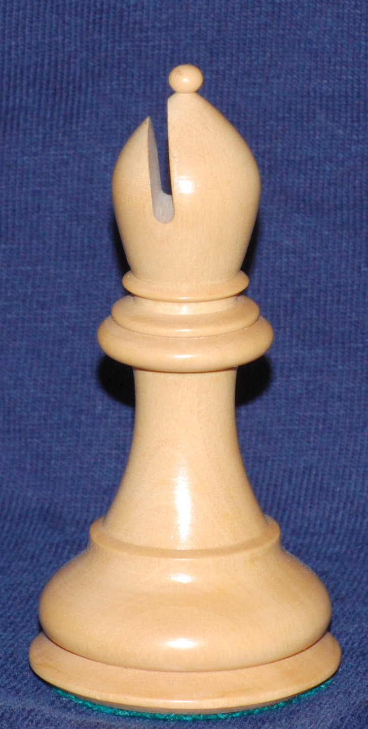 Bishop from my House of Staunton "Marshall" chess set